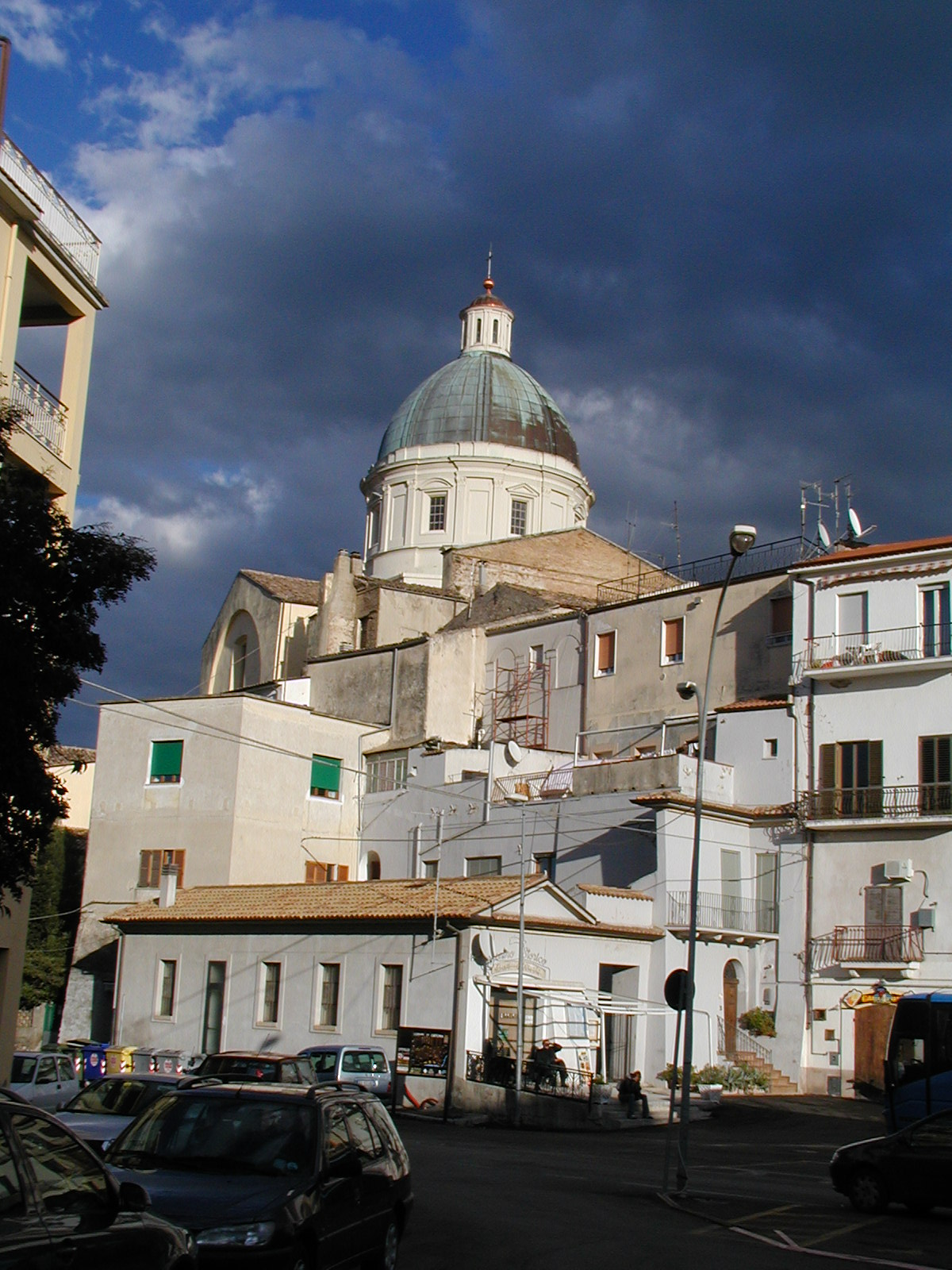 Die Kirchen (San Tommaso - Saint Thomas)